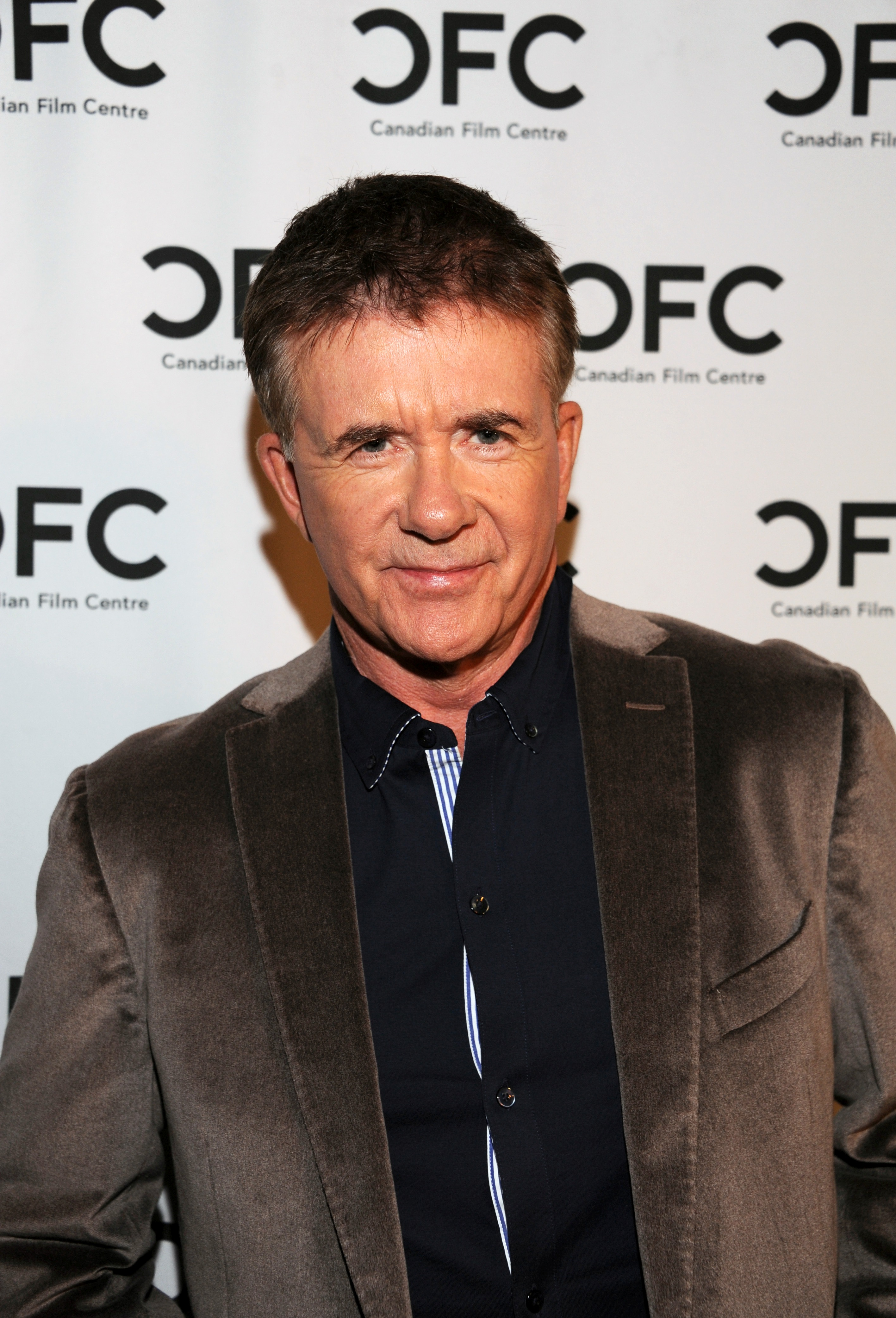 Alan Thicke at a Canadian Film Centre & Variety-hosted reception for the Telefilm Canada Features Comedy Lab. To learn more about the Canadian Film Centre, please visit: Photo by Mark Sullivan